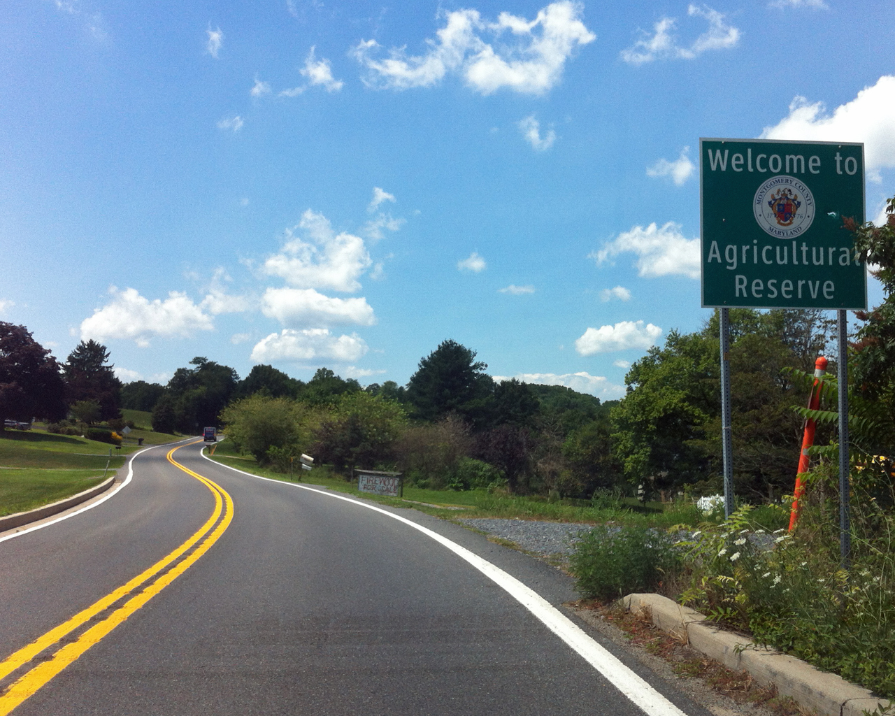 Welcome sign to the Montgomery County, Maryland Agricultural Reserve posted on Maryland Route 109 (Old Hundred Road) at Interstate 270 near Hyattstown.